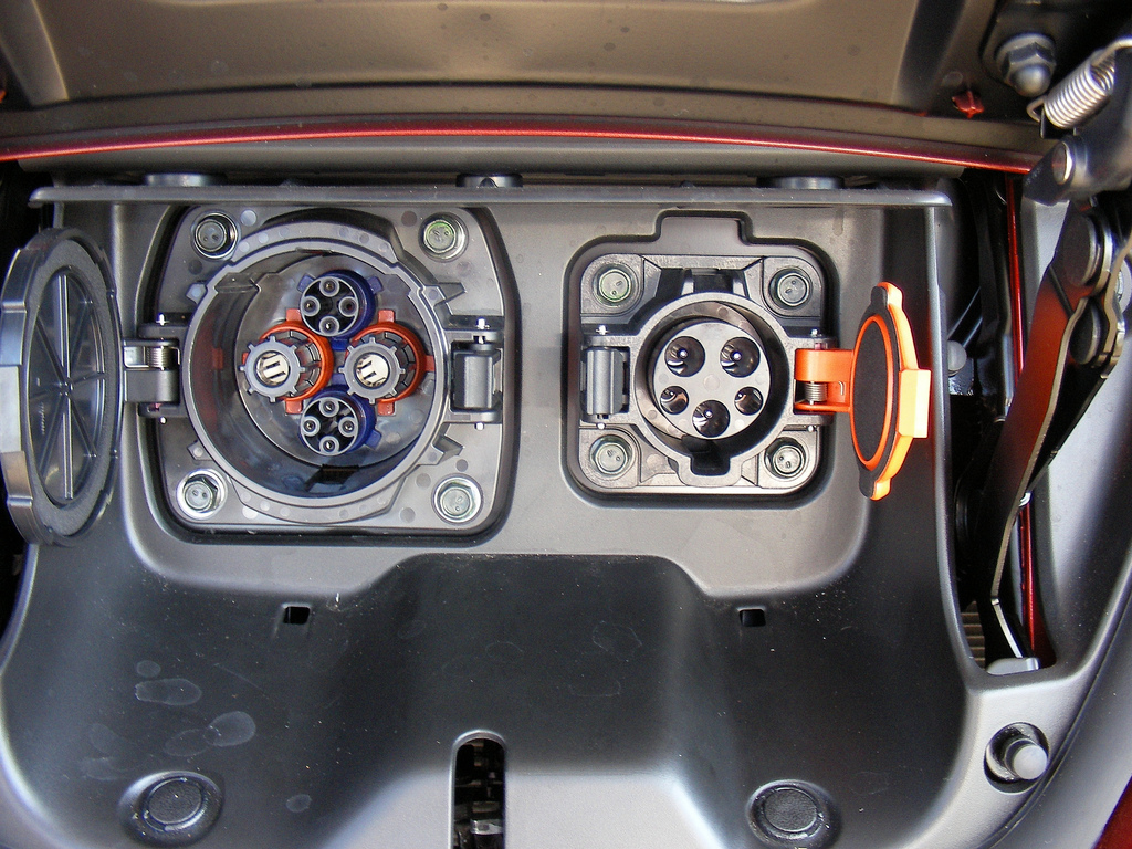 Nissan LEAF Charge Port at the Drive Electric Tour test drive in Santa Monica, California